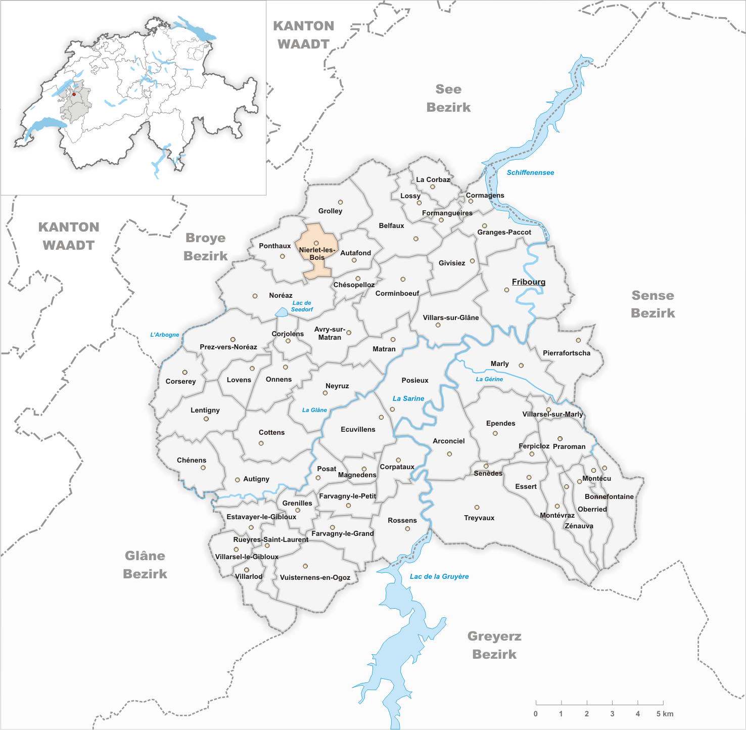 Municipality Nierlet-les-Bois Artist: Tschubby